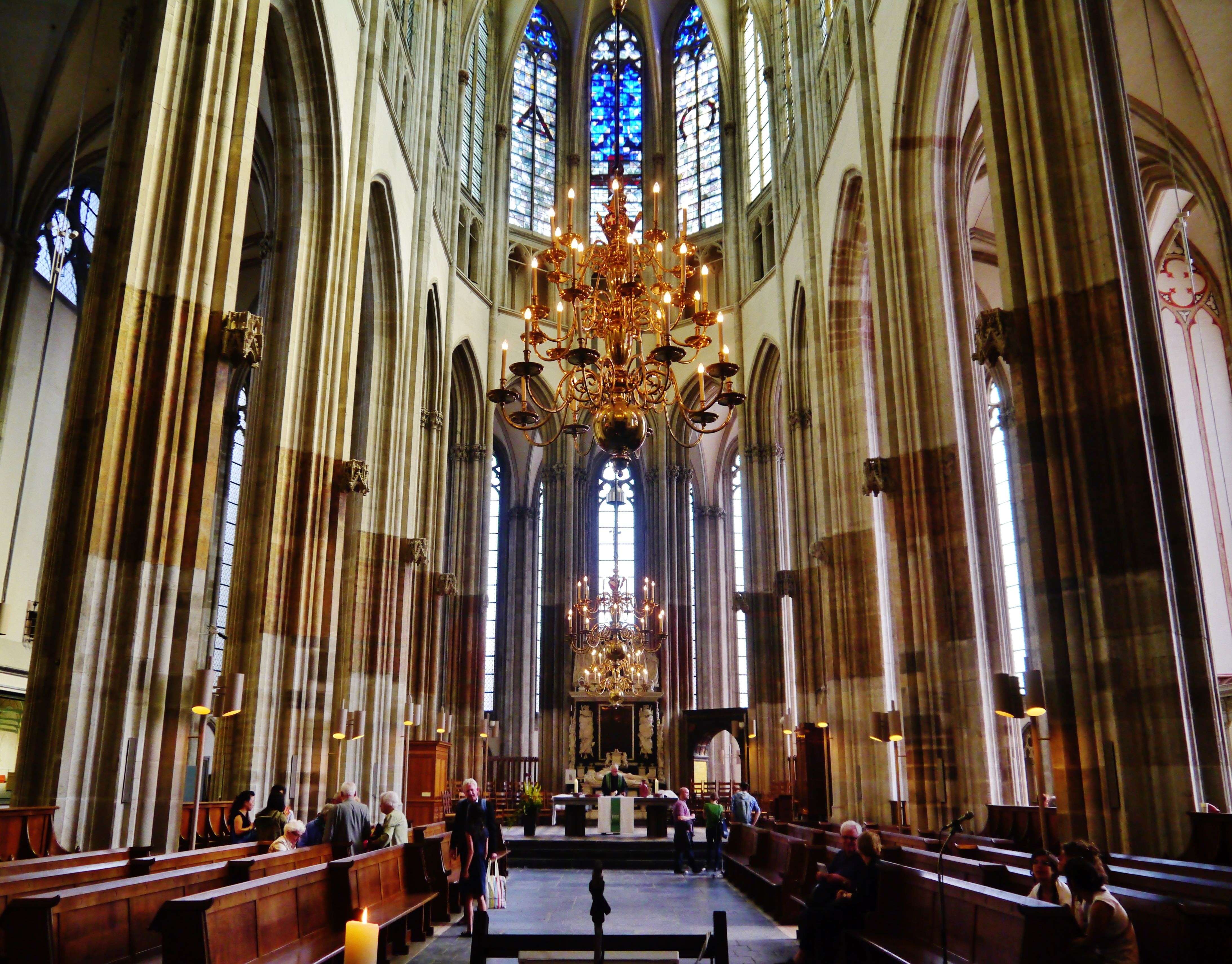 Choir of the Cathedral, Utrecht, Provinz Utrecht, Netherlands